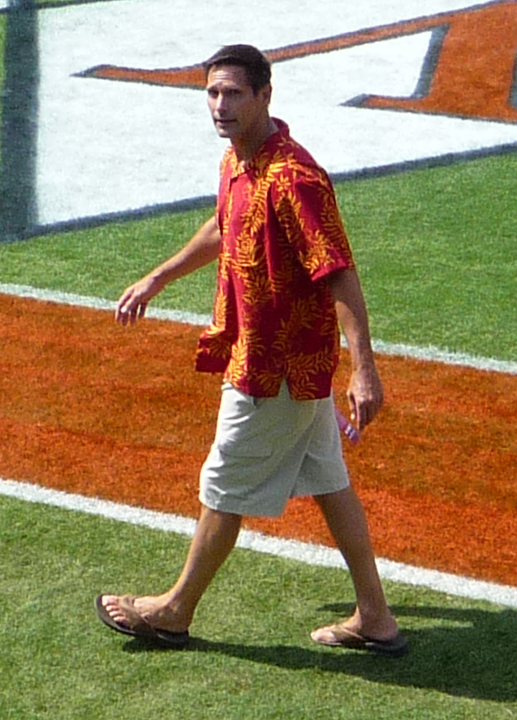 Paul McDonald, former college (USC) and NFL quarterback and now radio color commentator, walks along the field before a USC game versus Virginia.